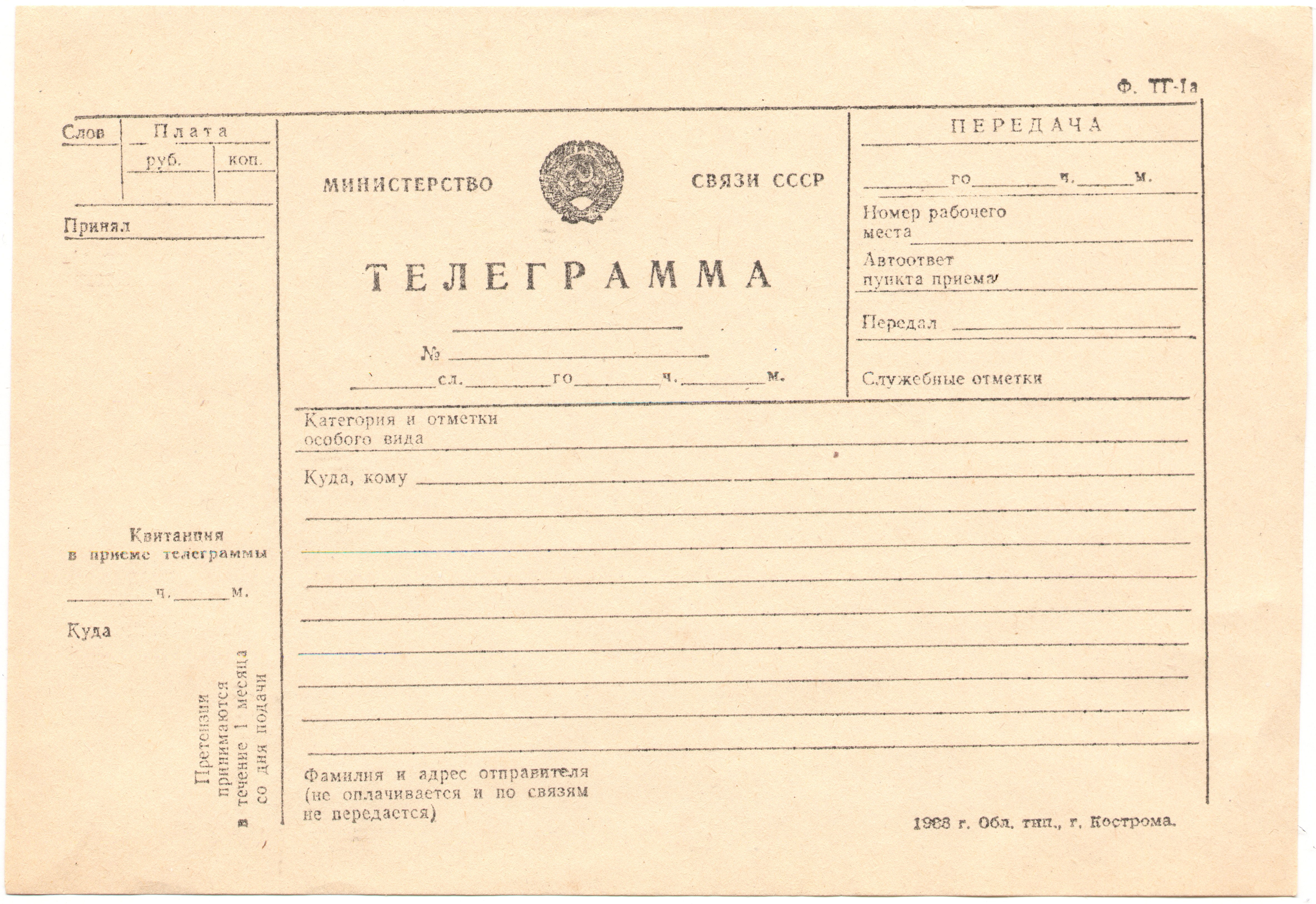 USSR Telegram form, Form TG-1a, 1988. Printed at the regional typography of Kostroma